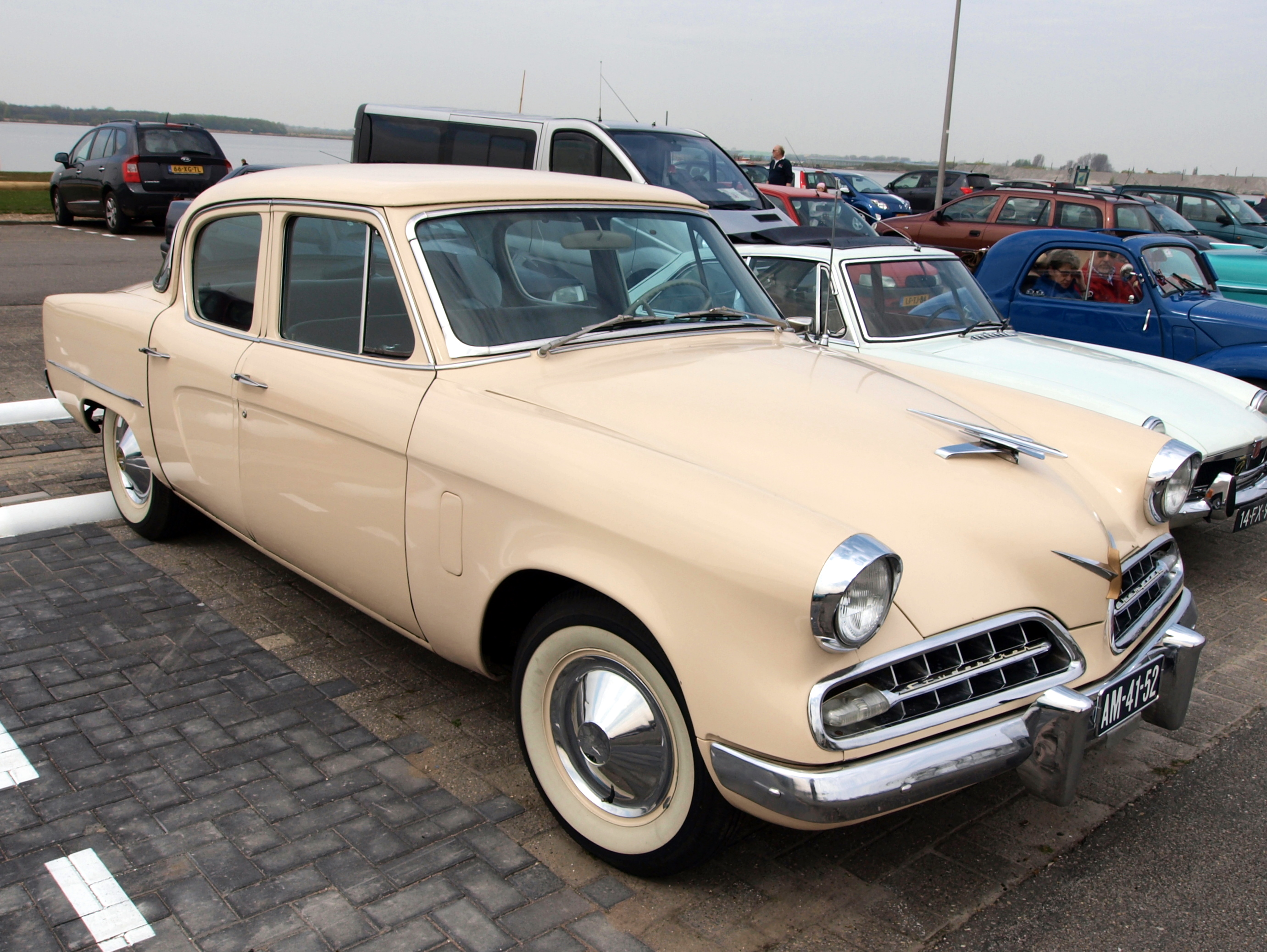 Photographed at Valkenburg, The Netherlands. OLYMPUS DIGITAL CAMERA